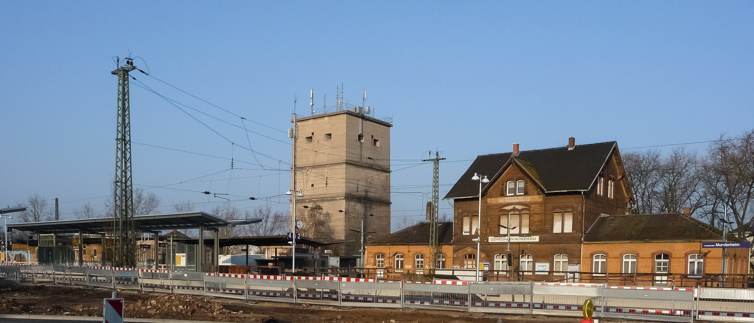 train station in Ludwigshafen, Germany